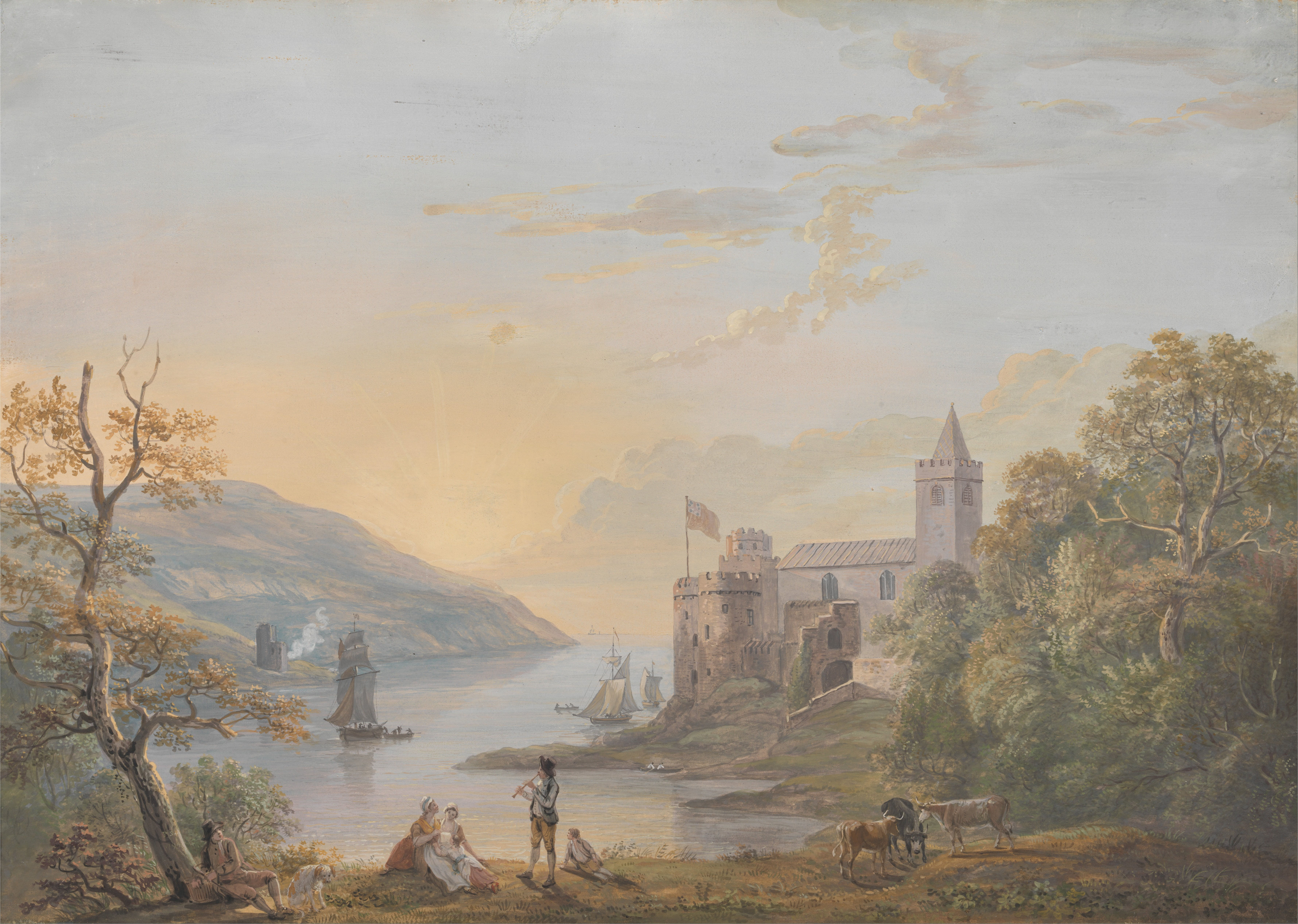 Architectural subject